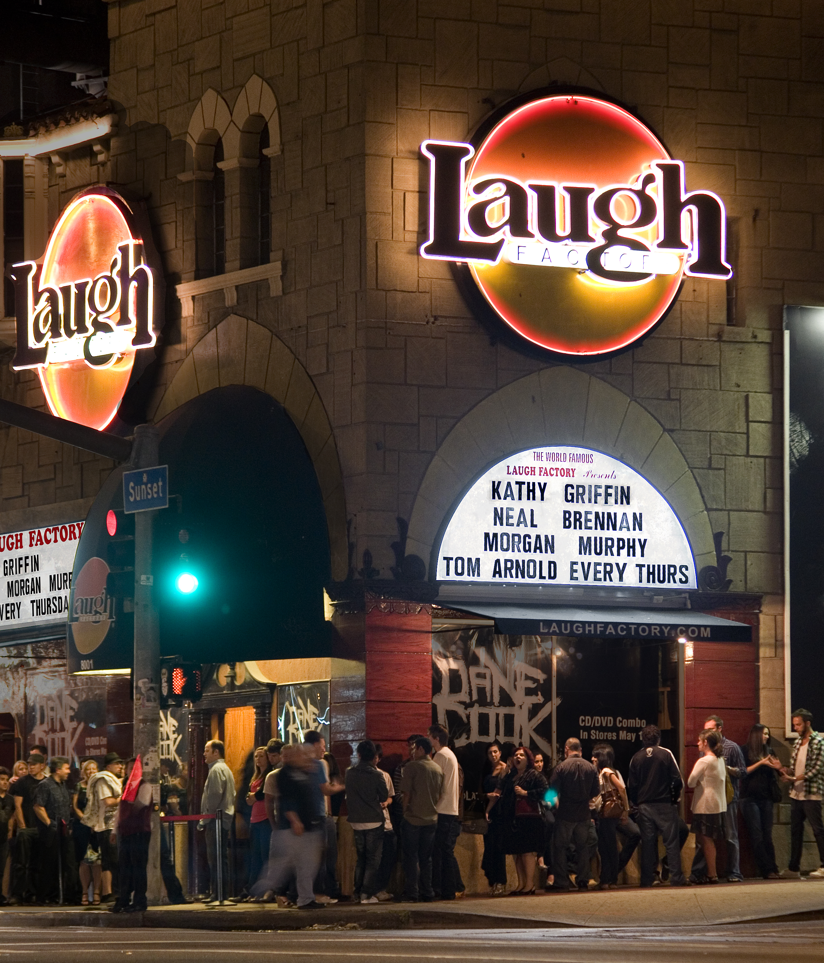 Exterior view of a typical night at the Laugh Factory in Hollywood